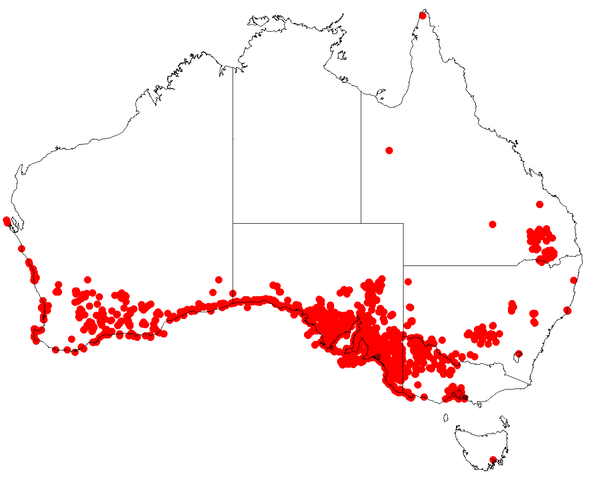 Collection records for Melaleuca lanceolata downloaded from Australasian Virtual Herbarium, 16 May 2018